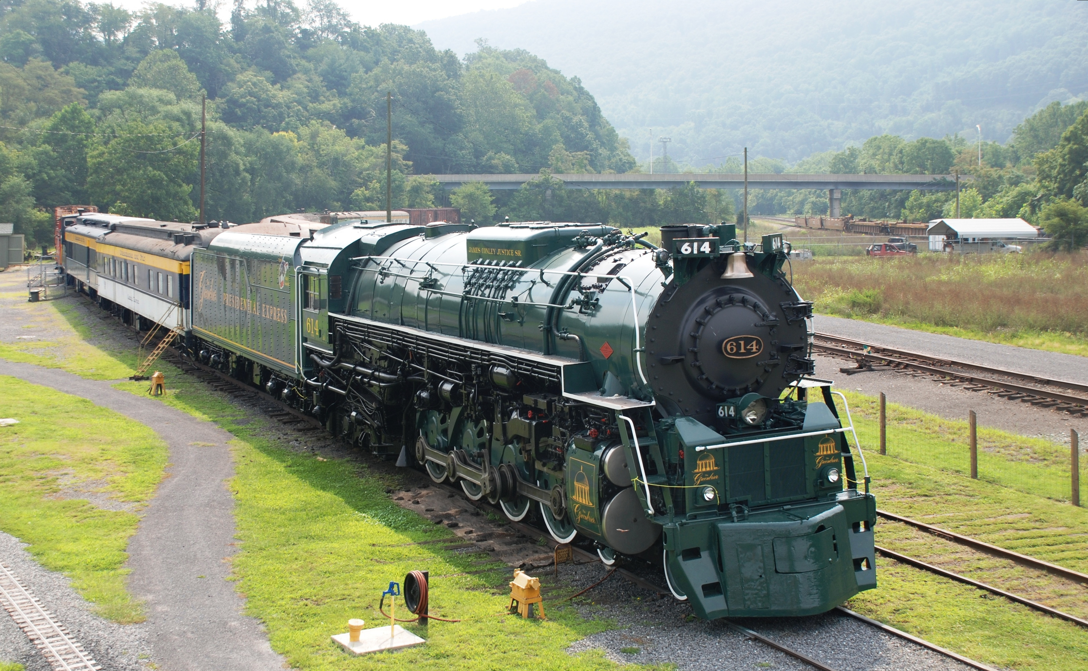 Chesapeake & Ohio 614 4-8-4 steam locomotive at C&O Railway Heritage Center in Clifton Forge, Virginia.